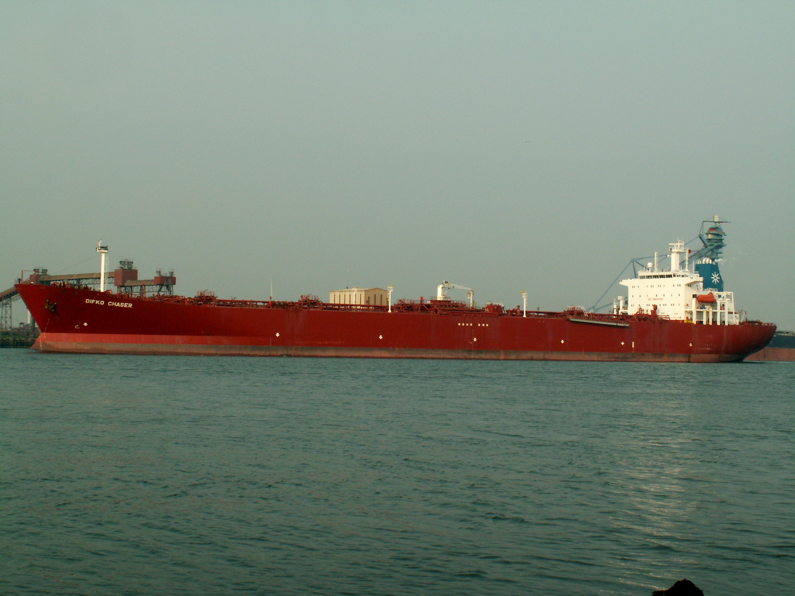 Difko Chaser - IMO 8820951 - Callsign LAUO5